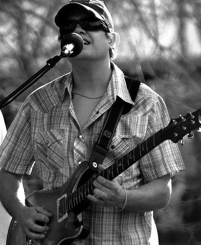 Umphrey's McGee on Earth Day 2007 at the Lincoln Park Zoo in Chicago, Illinois.